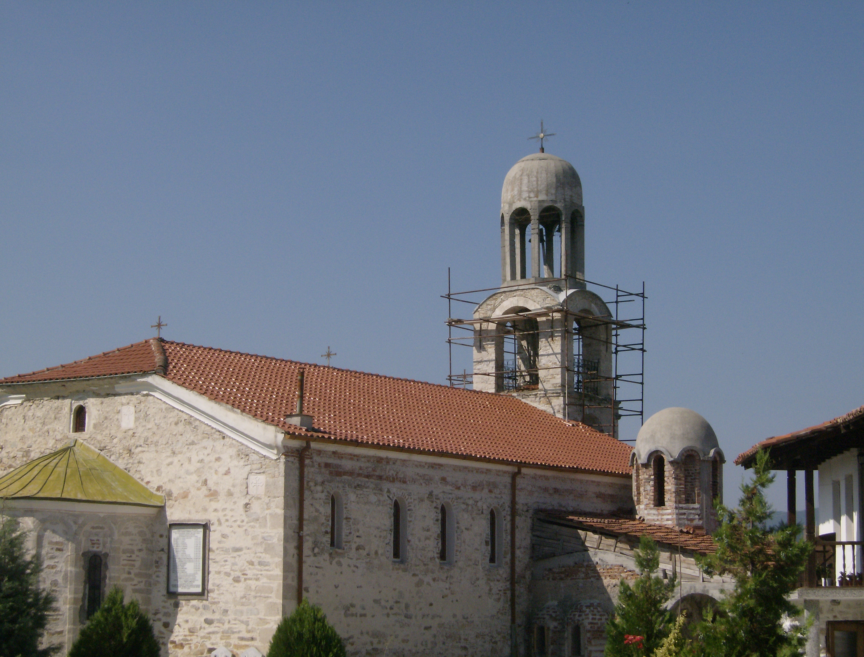 Hadzhidimovo Monastery